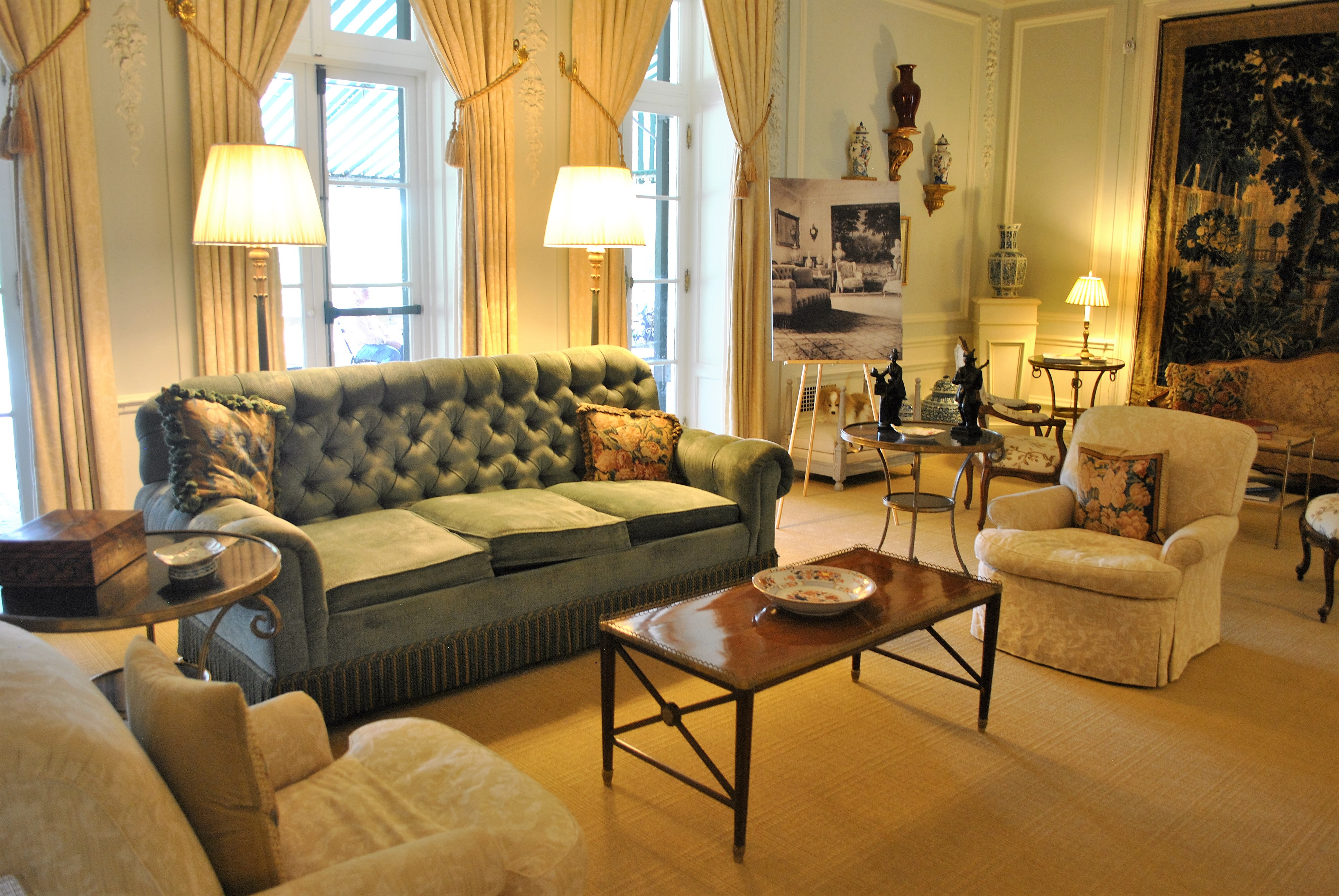 Image originally published in Queer Places: Retracing the Steps of LGBTQ people around the World Authored by Elisa Rolle